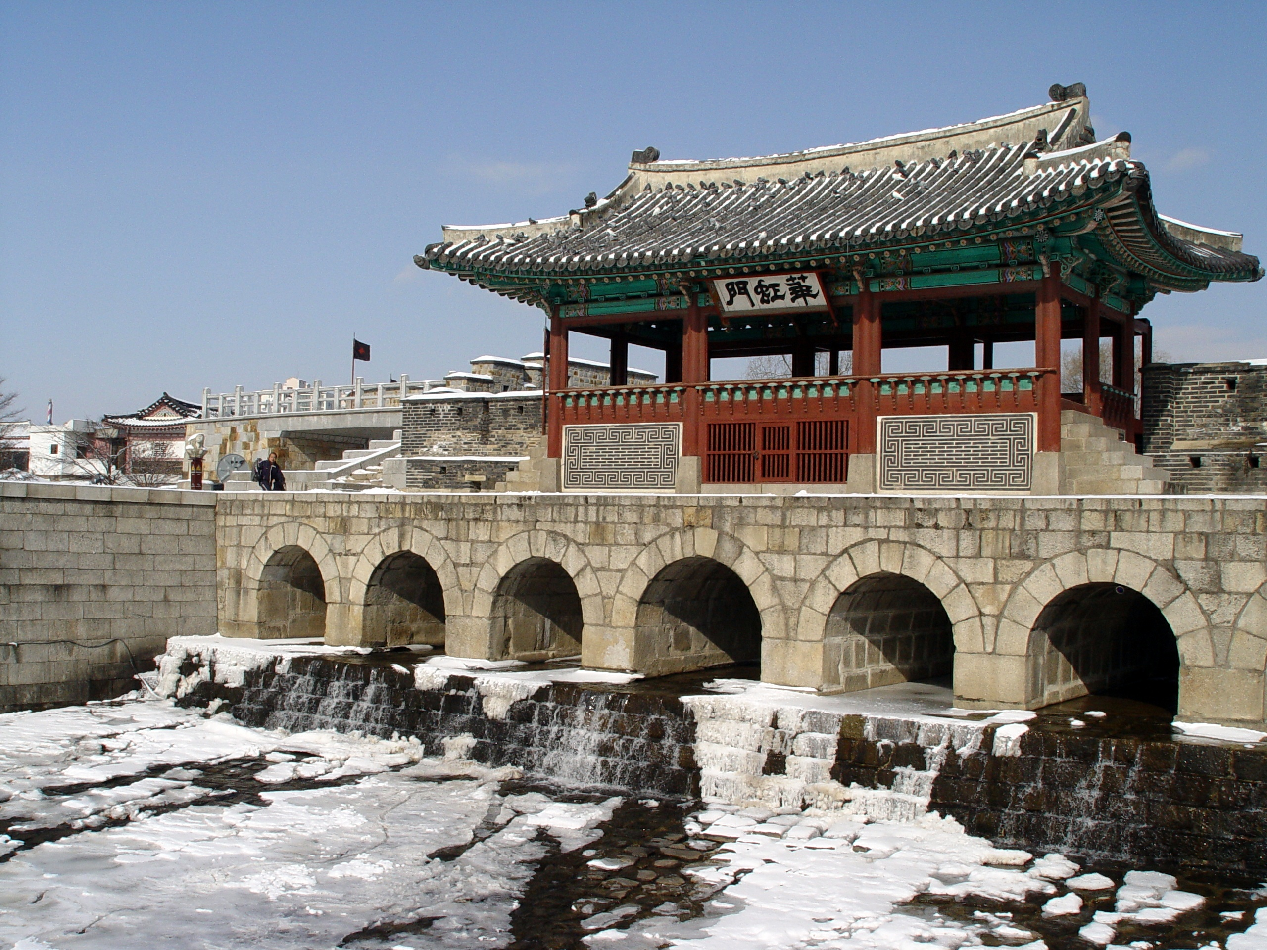 South side of Hwahongmun, Hwaseong Fortress, Suwon, South Korea